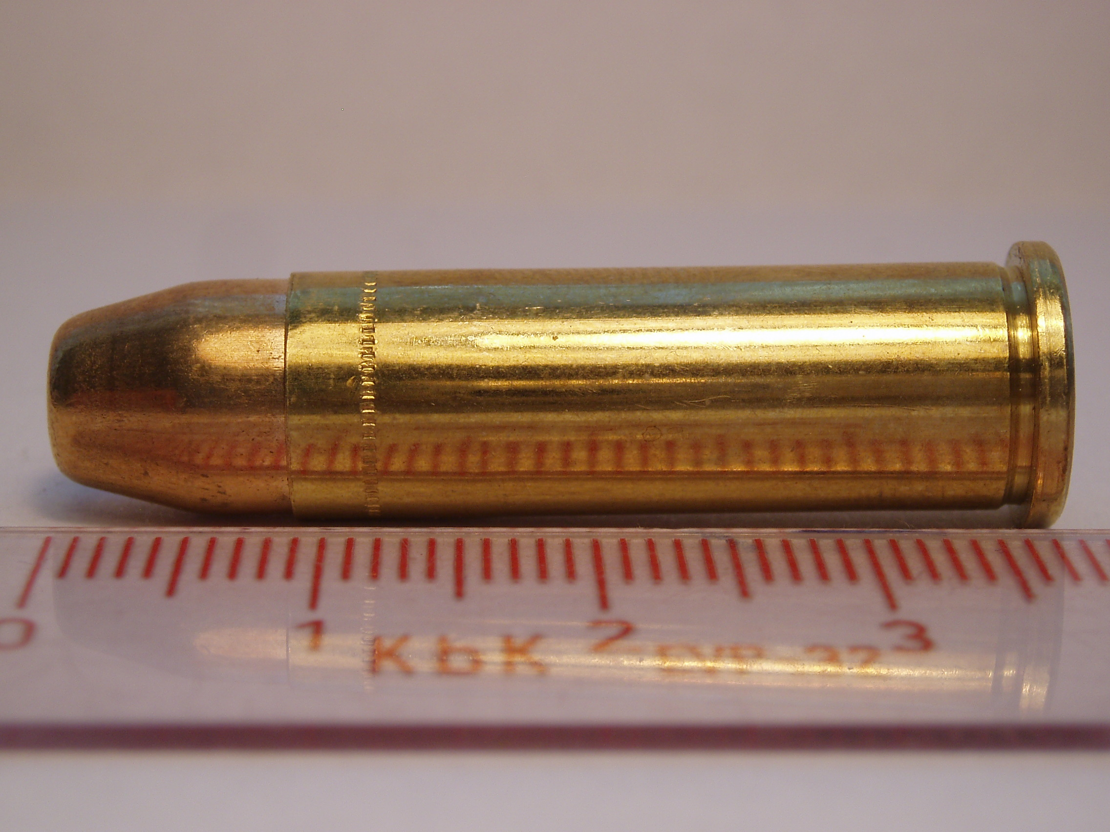 .38 Special revolver cartrdige. FMJ bullet. Manufacturer: Sellier & Bellot.